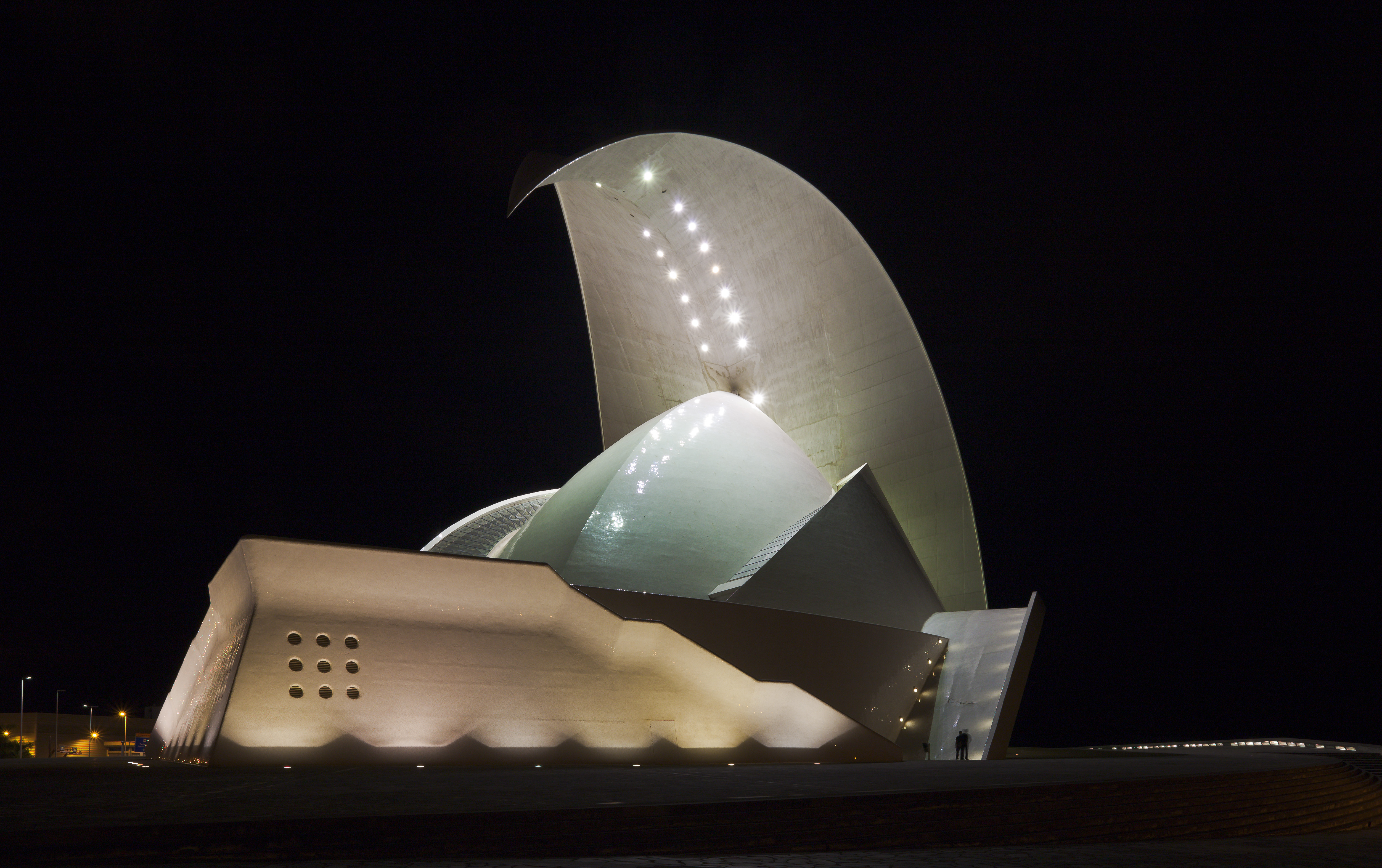 Auditorium of Tenerife, Santa Cruz de Tenerife, Spain